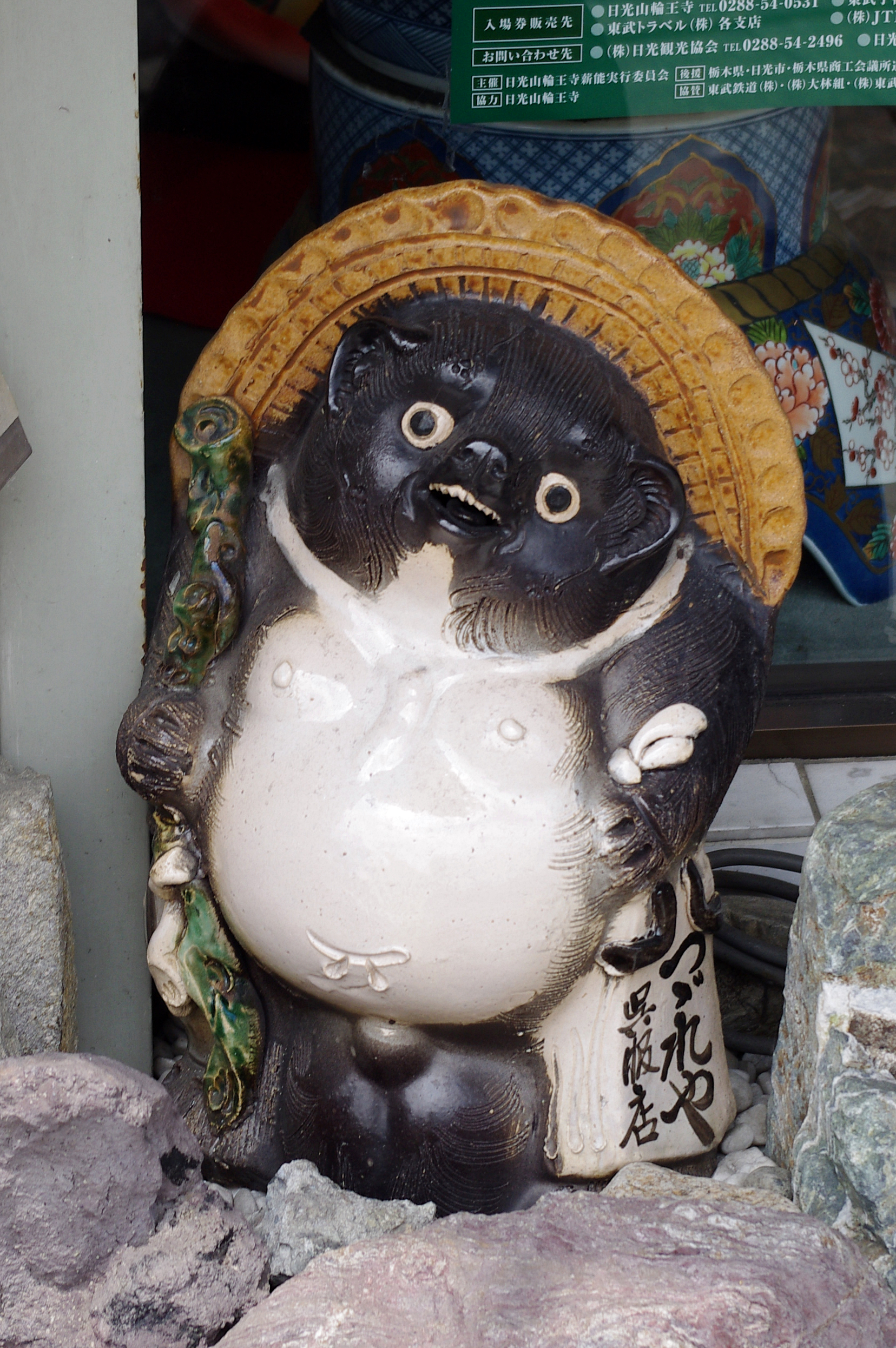 Statue of tanuki in front of a house in Nikko town